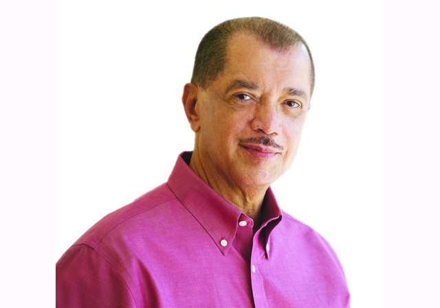 James Michel, president of the Seychelles.